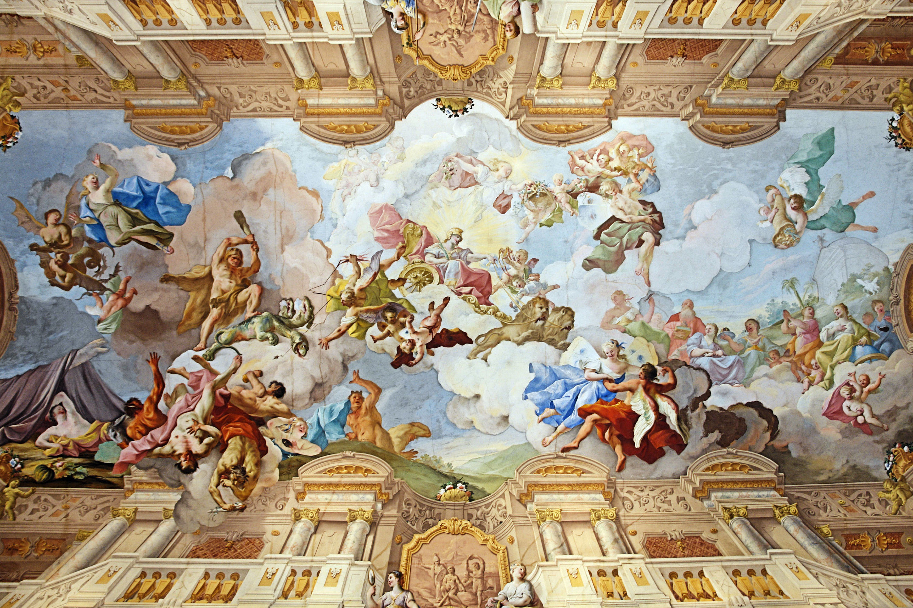 The ceiling painting shows Pallas Athena on a chariot drawn by lions as a symbol of wisdom and moderation. Hercules is to her left, symbolizing the force necessary to conquer the three-headed hound of hell, night, and sin. Both Pallas Athena and Hercules are disguised references to Holy Roman Emperor Charles VI [1].